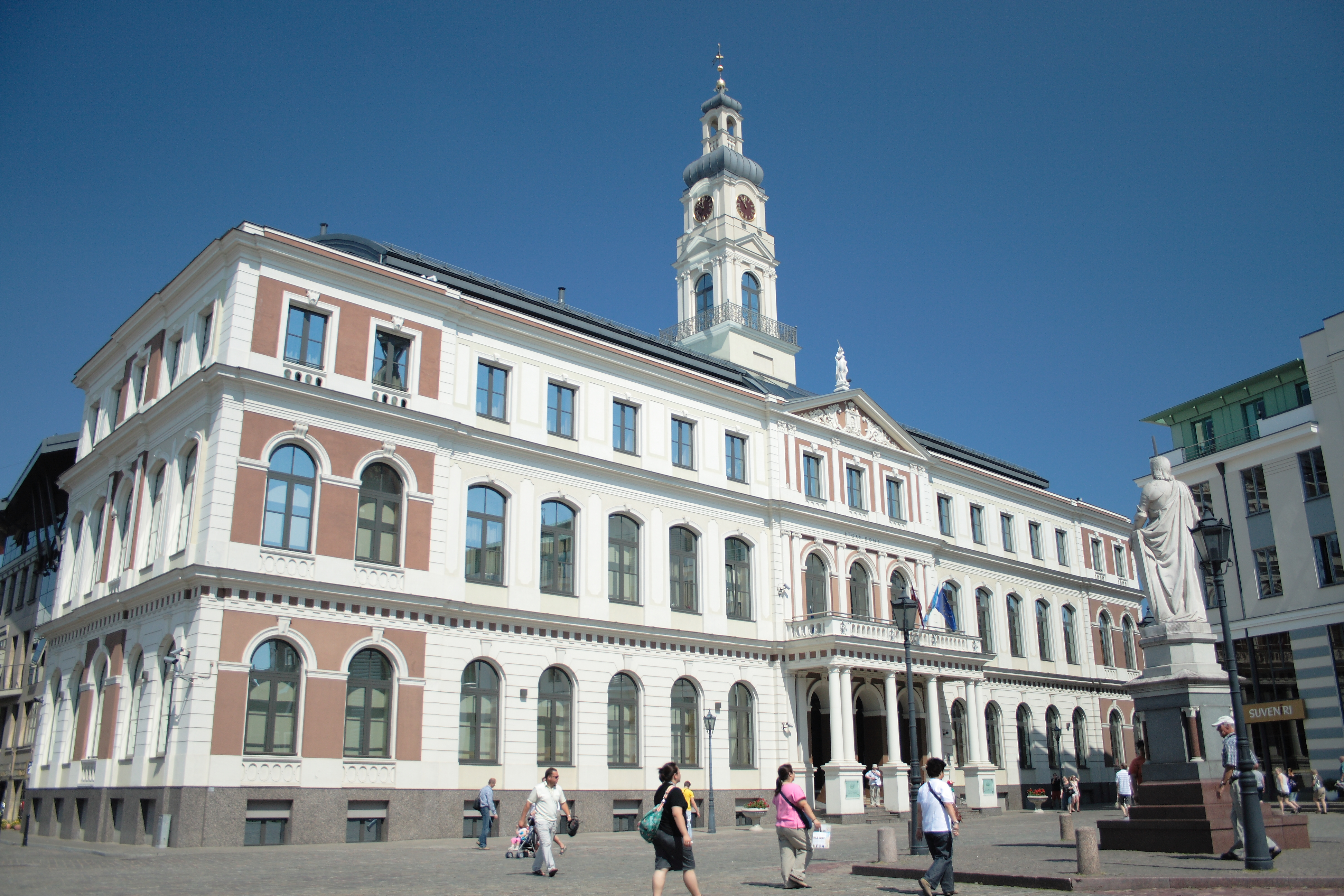 Riga City Hall